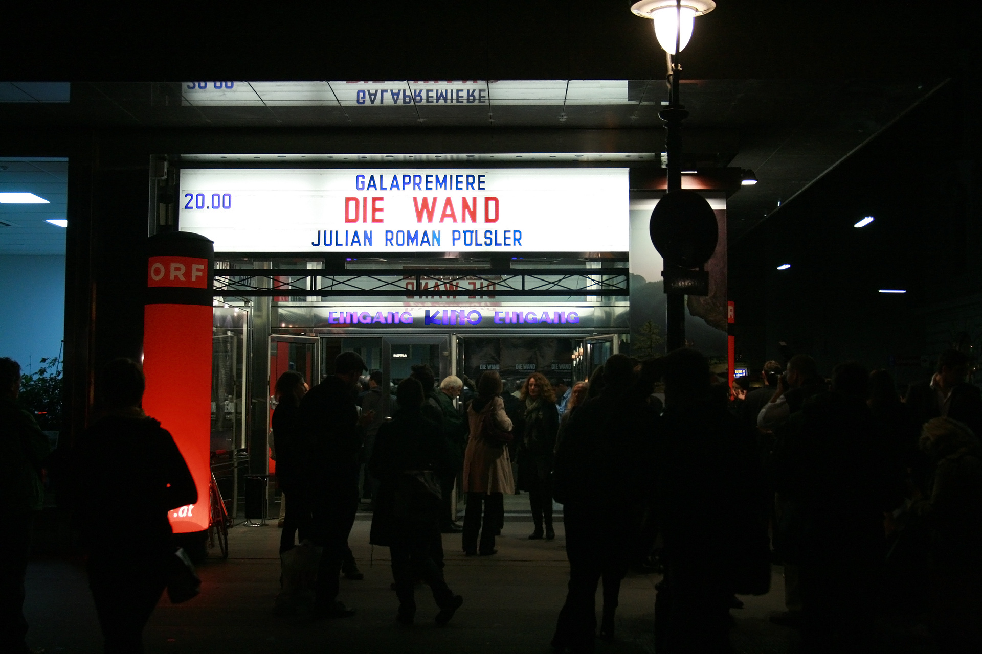 Austrian premiere of Die Wand (The Wall) at Gartenbaukino in Vienna, Austria.